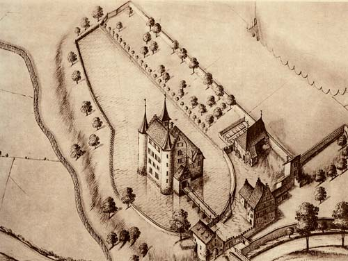 An aquarel of the Schloss Binningen in the year 1660